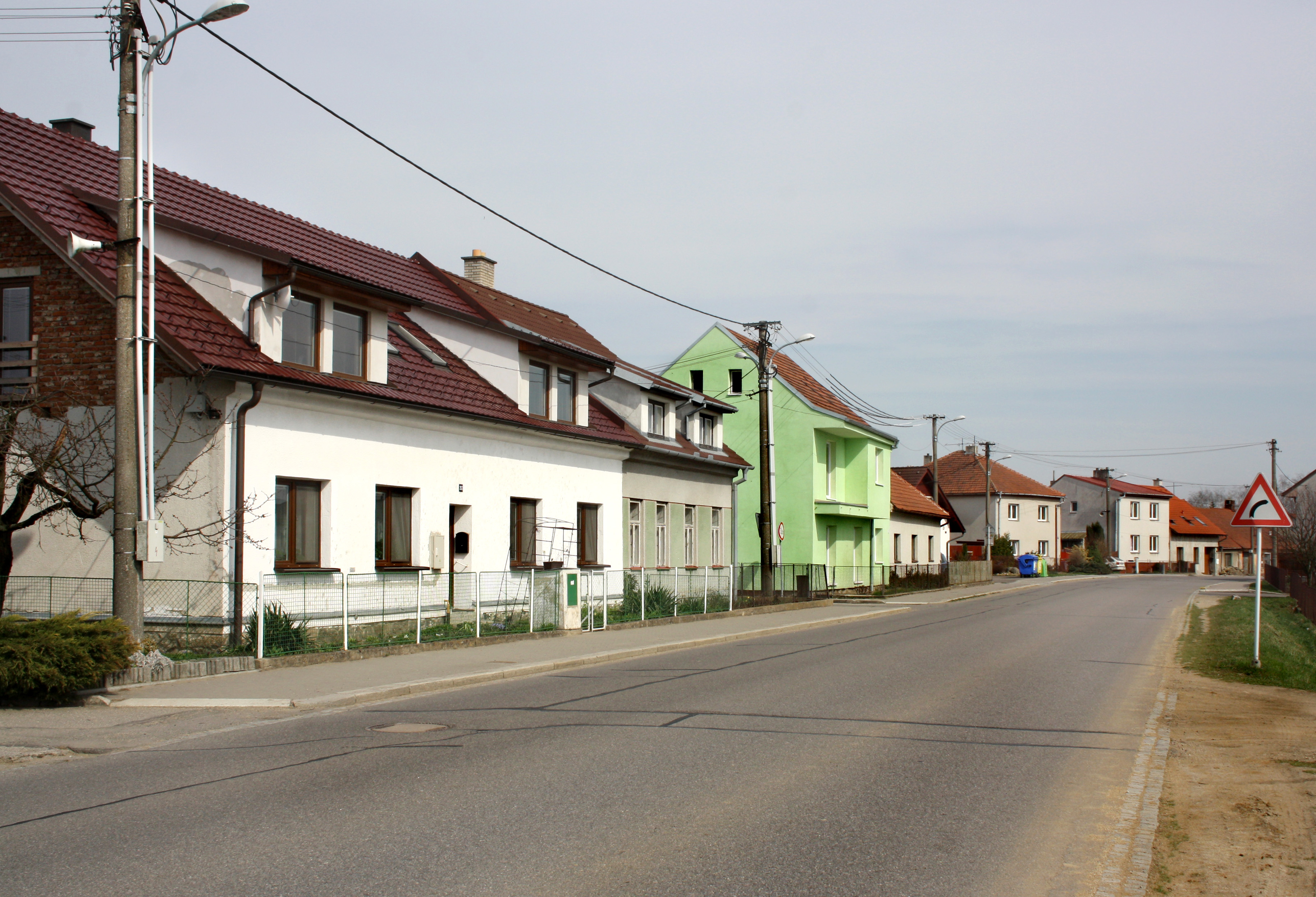 Road No 602 in the west part of Měřín